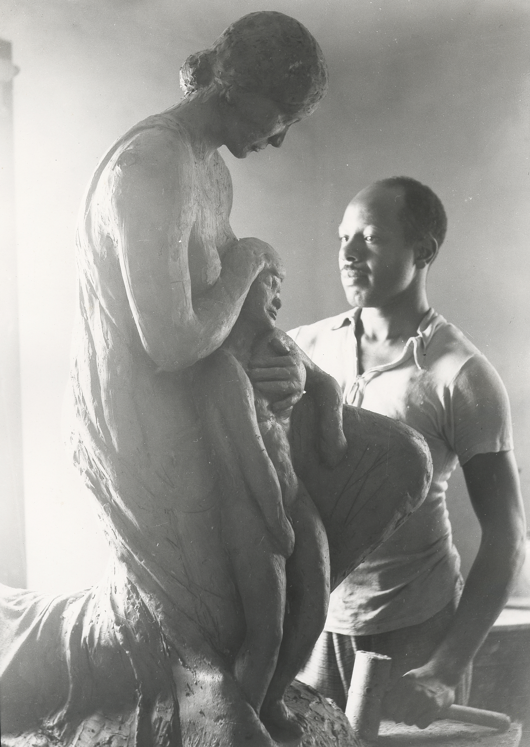 LaGrone, WPA sculptor, University of New Mexico, 1930s. Identification on verso (handwritten): Oliver LaGrone WPA Sculptor.